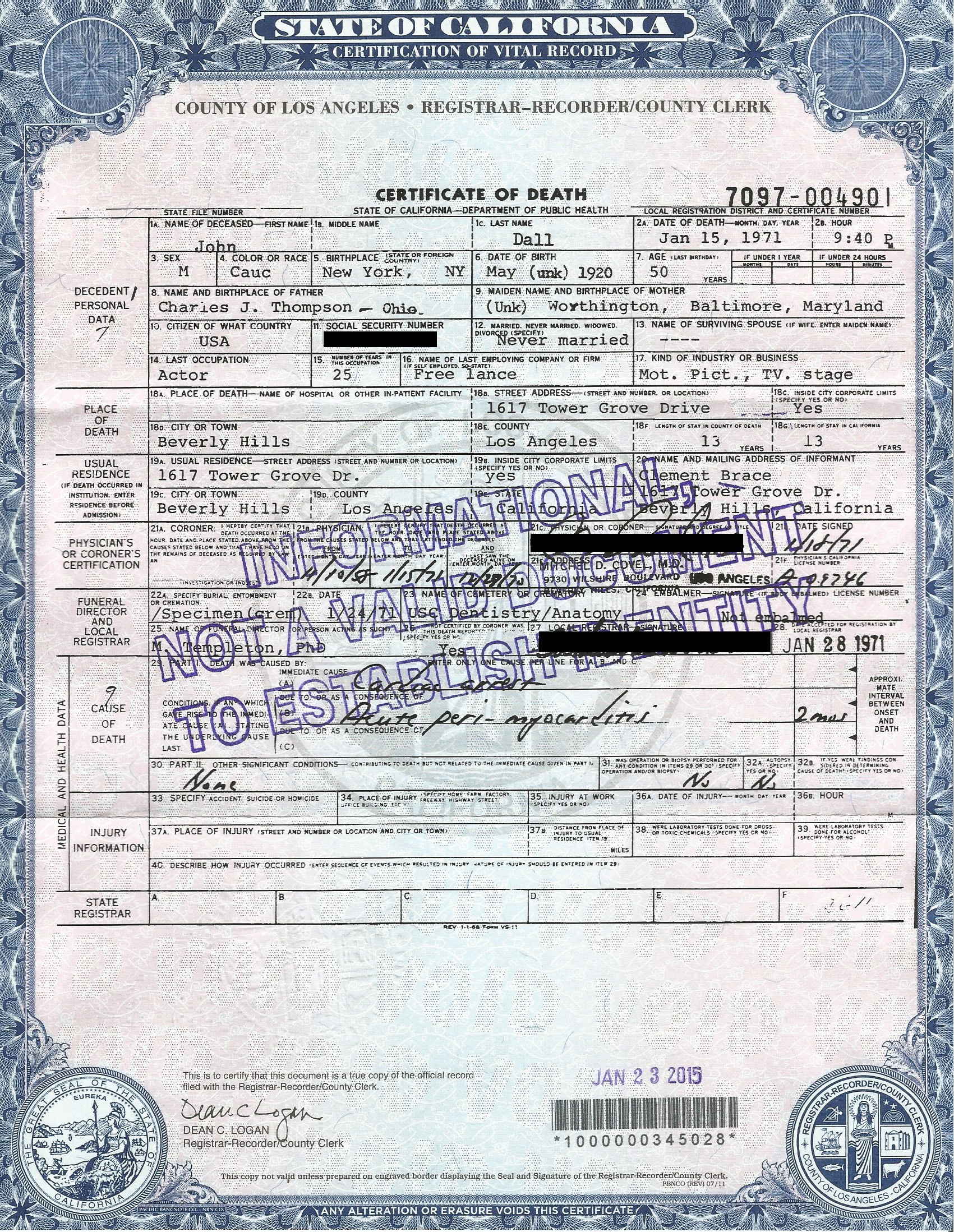 Death certificate of John Dall.